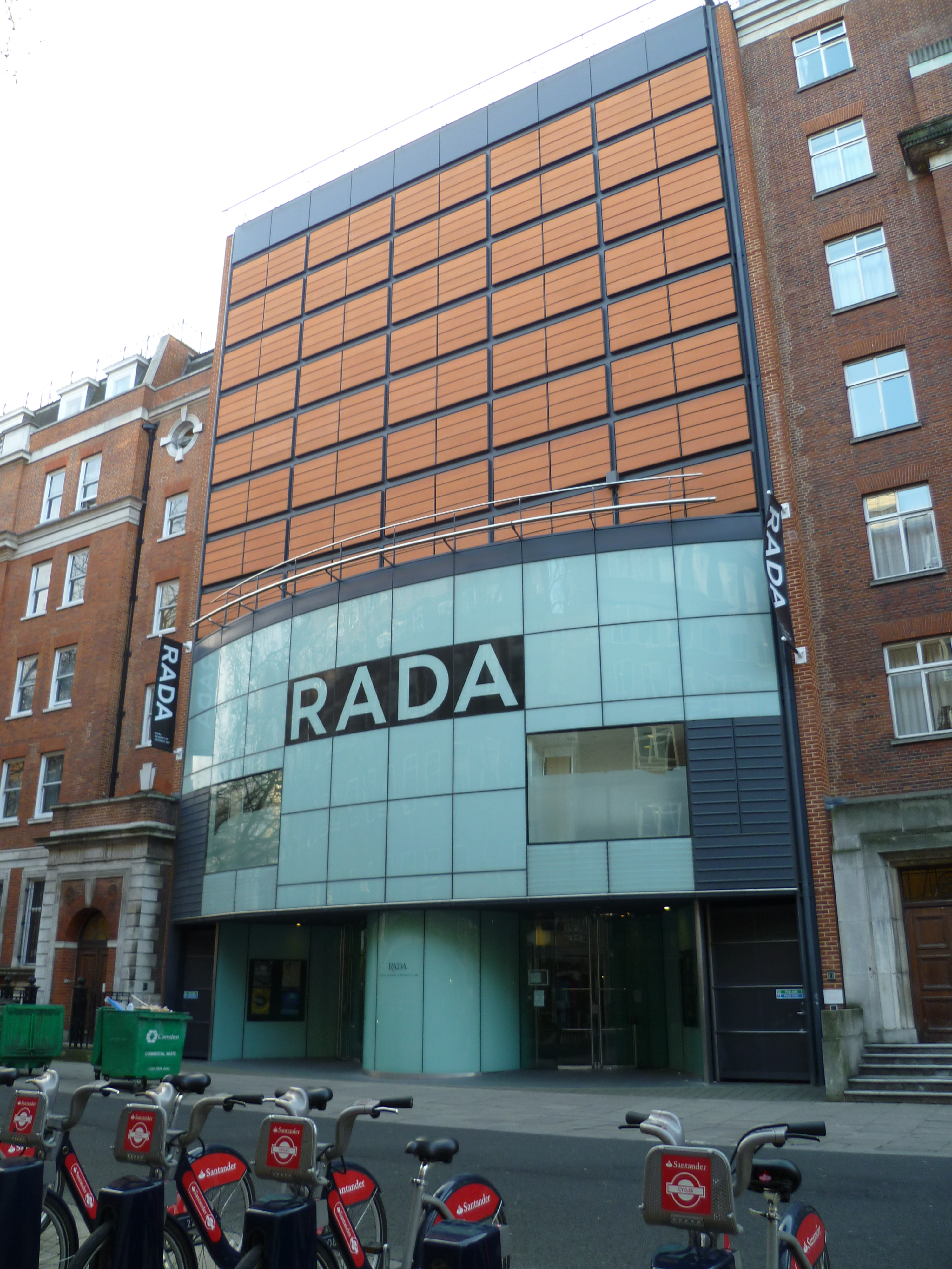 RADA, London